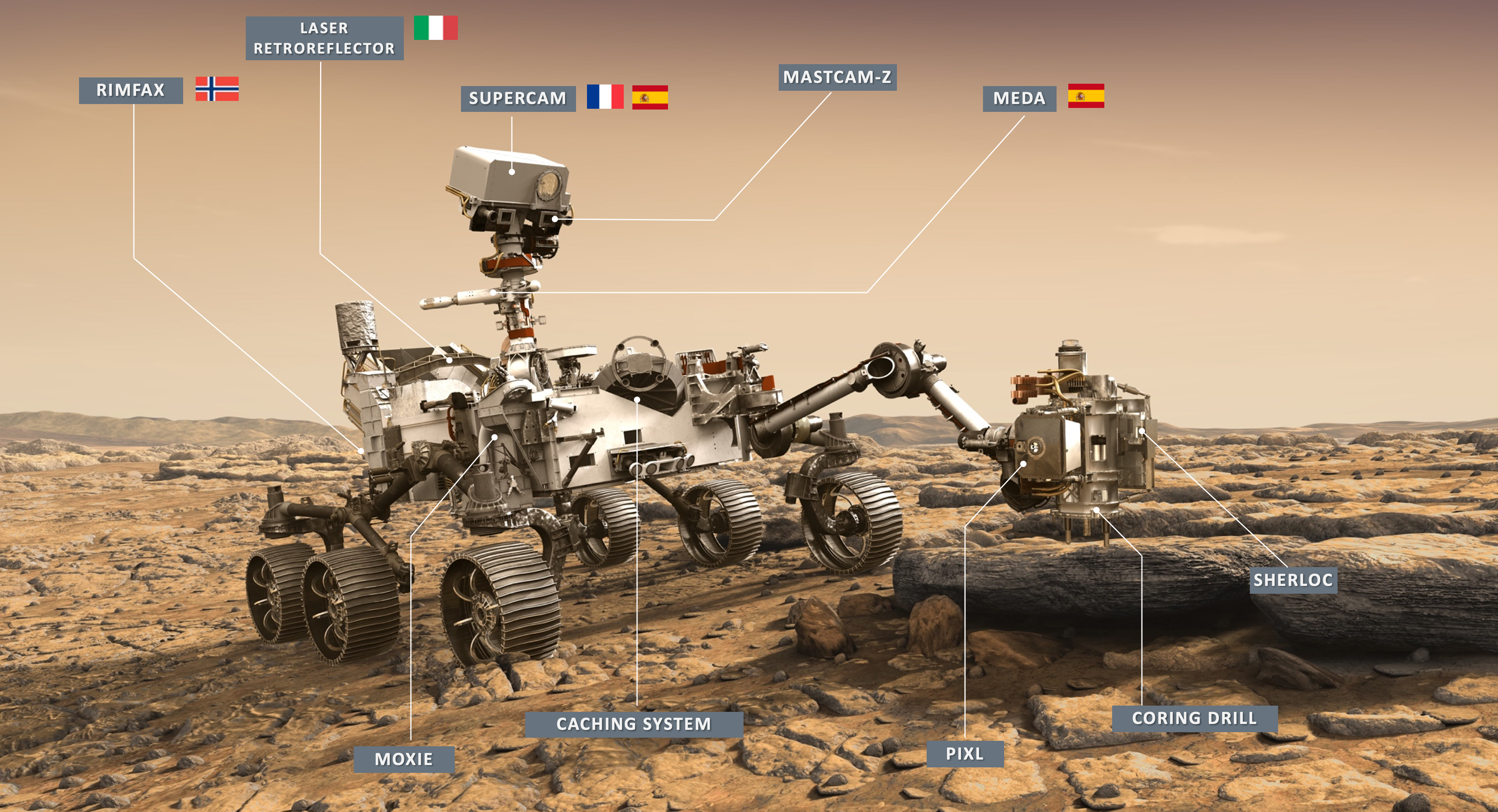 Diagram of the perseverance rover-instruments